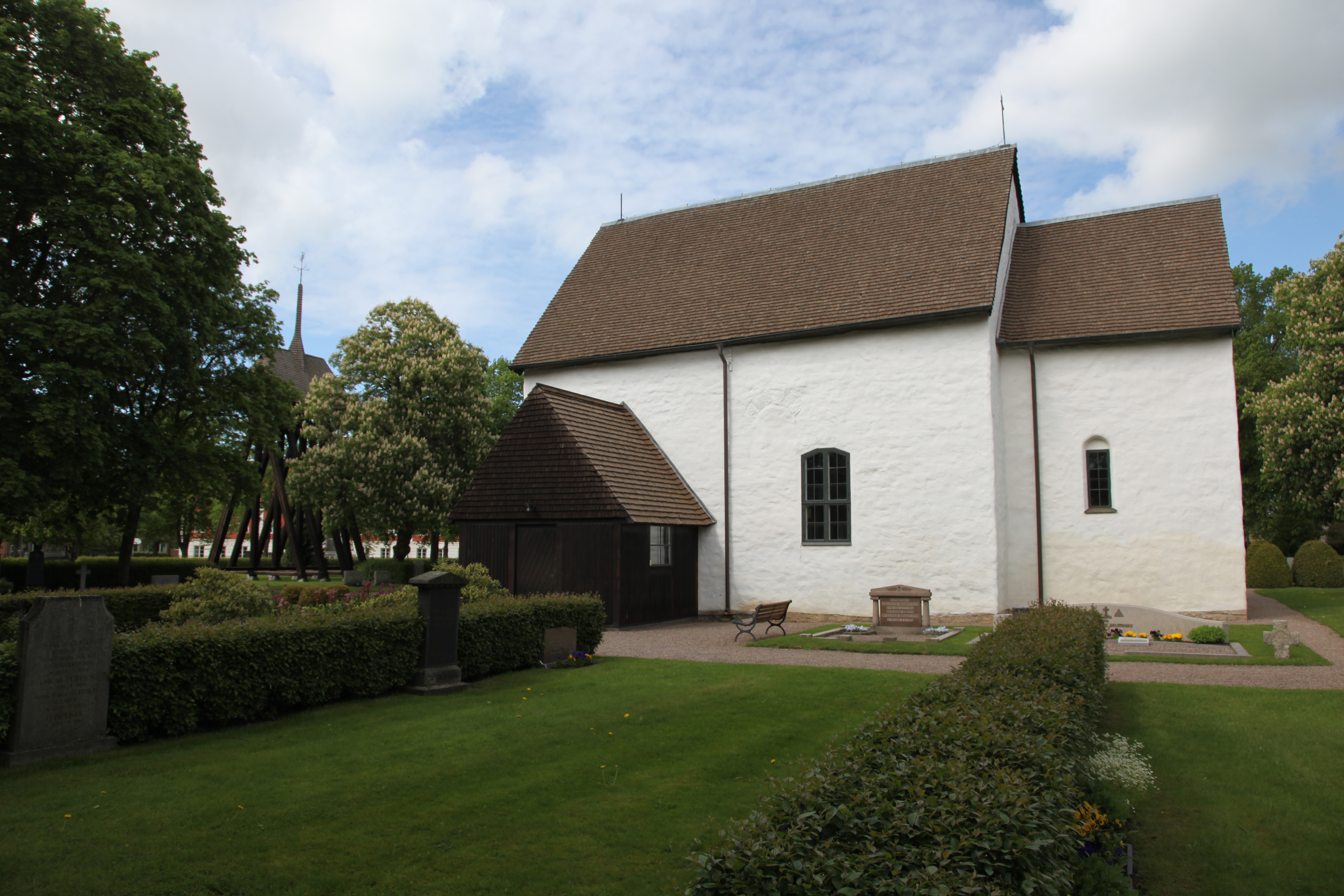 Gõtene kyrka. A church near Lidköping